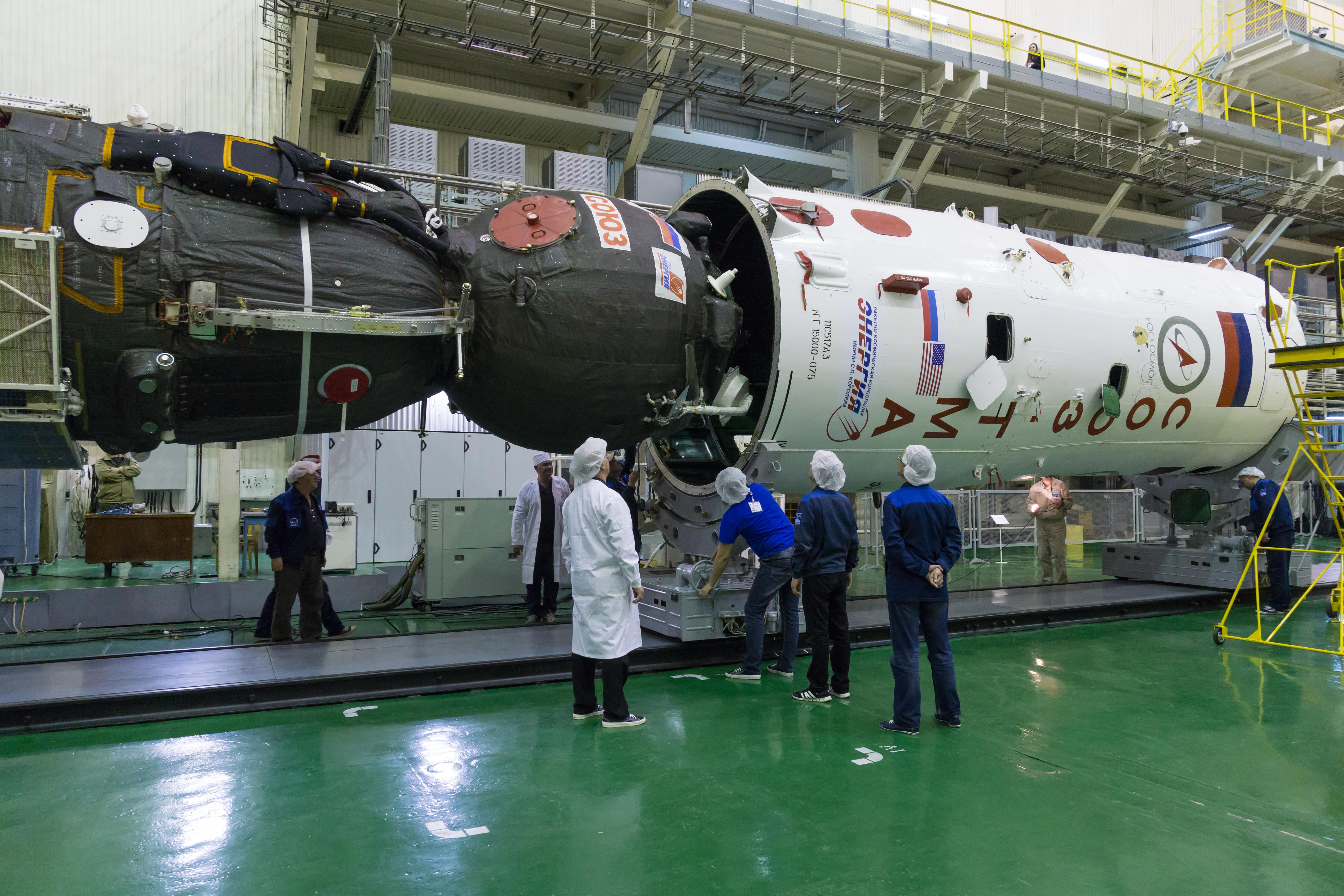 At the Integration Facility at the Baikonur Cosmodrome in Kazakhstan, RSC-Energia technicians look on as the Soyuz TMA-19M spacecraft is encapsulated into the upper stage of its Soyuz booster rocket Dec. 8. The Soyuz spacecraft will launch Dec. 15 to send Expedition 46-47 crewmembers Tim Kopra of NASA, Tim Peake of the European Space Agency and Yuri Malenchenko of the Russian Federal Space Agency (Roscosmos) for a six-month mission on the International Space Station.